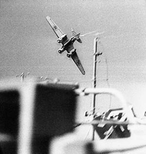 Savoia Marchetti SM 79 during an attack on a convoy bound for Malta during the Second World War.